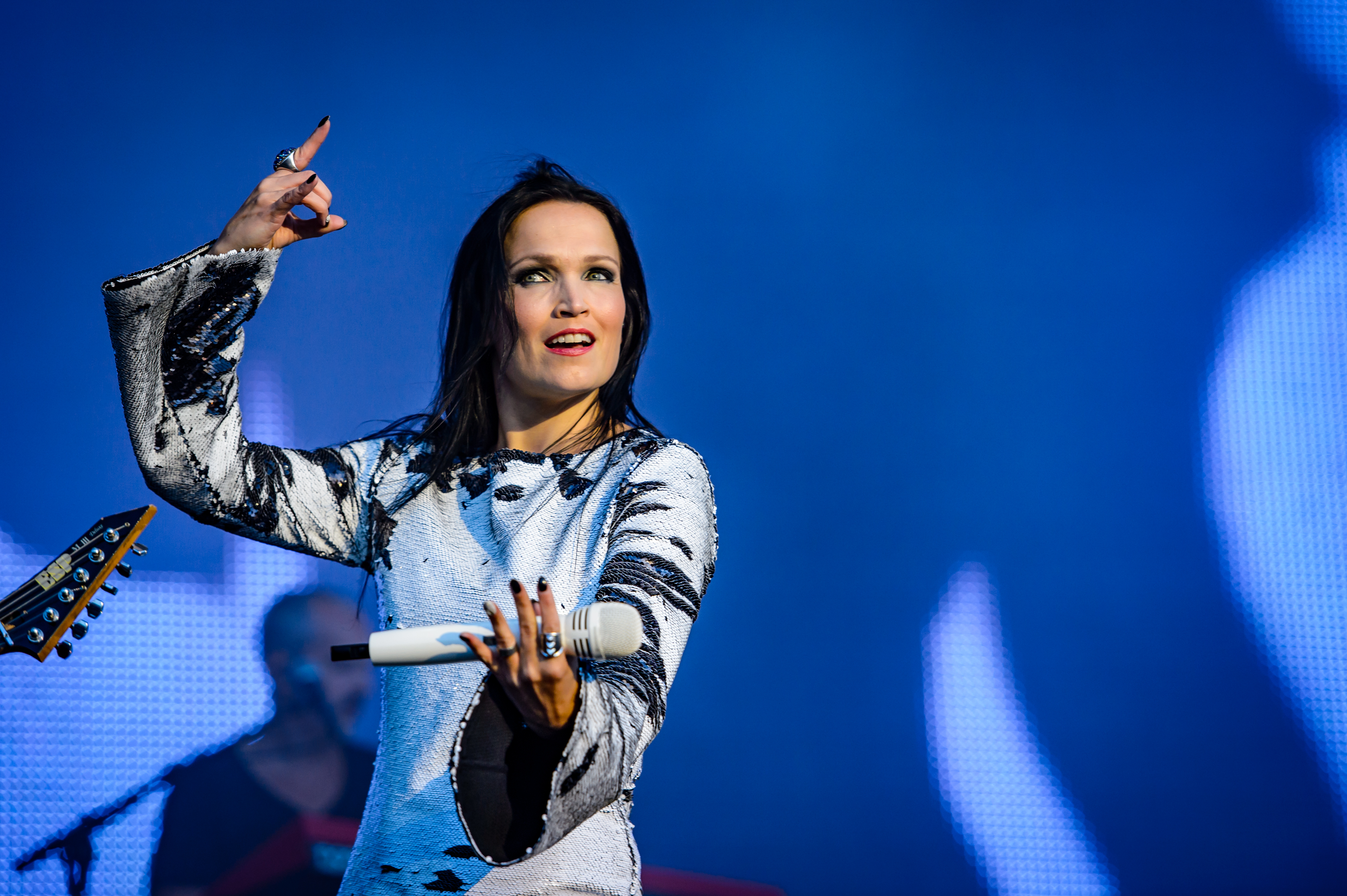 Tarja Turunen; Wacken Open Air 2016